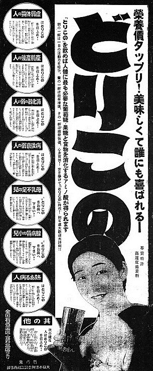 Dorikono advertisement in 1930s